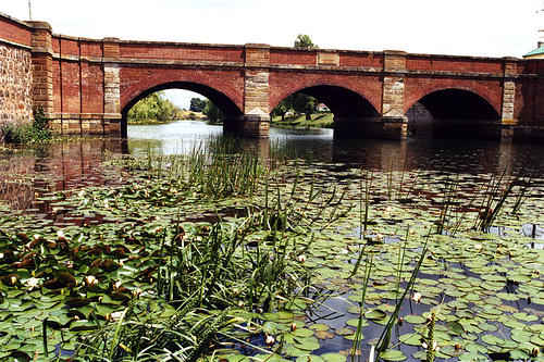 The Red Bridge, Tasmania, the oldest surviving brick arch bridge in Australia.